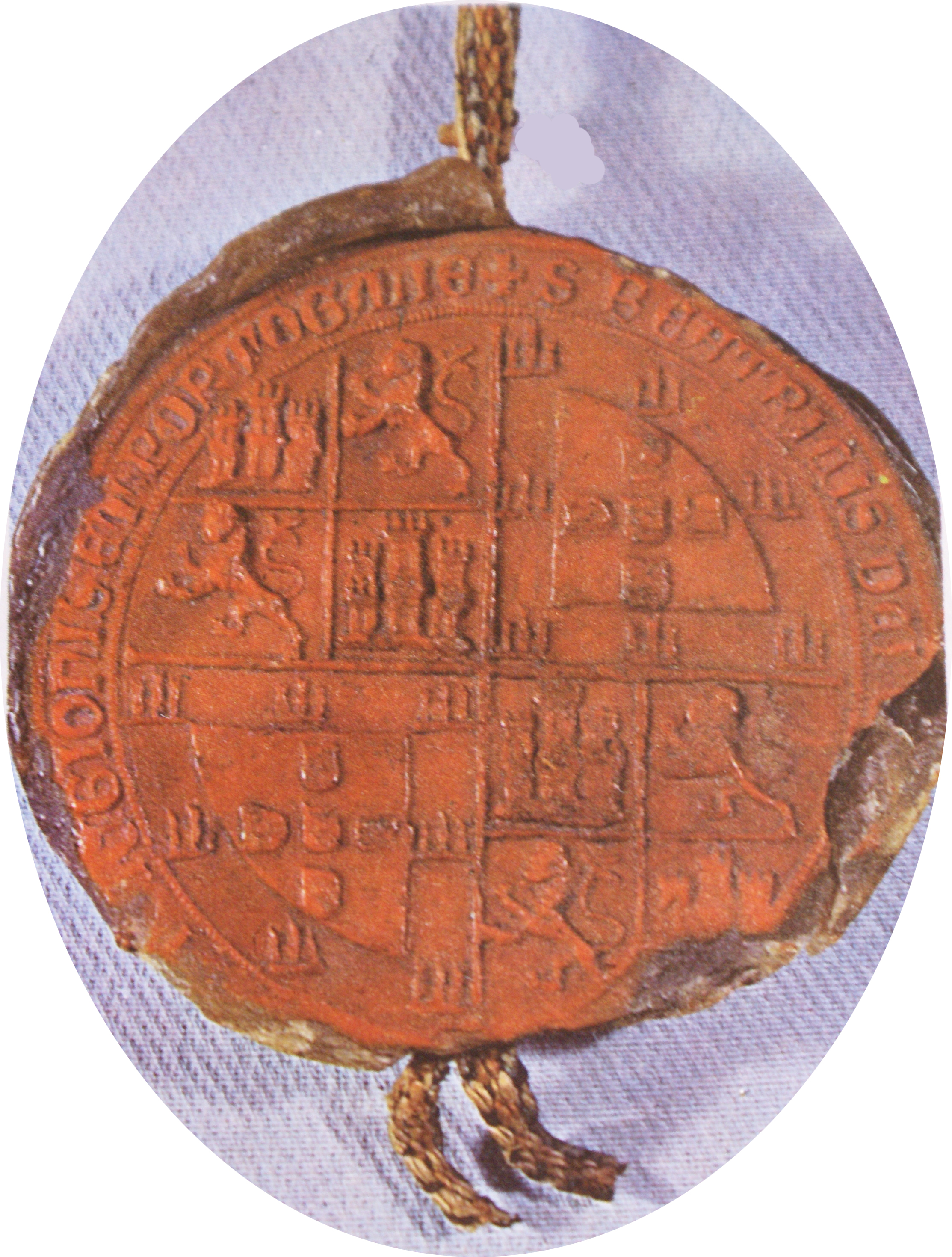 Selo que D. João I, rei de Castela, casado com D. Beatriz de Portugal mandou fazer a quando do seu assentamento em Santarém com a pertença de se assenhorar do trono de Portugal